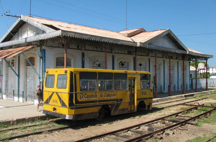 my own